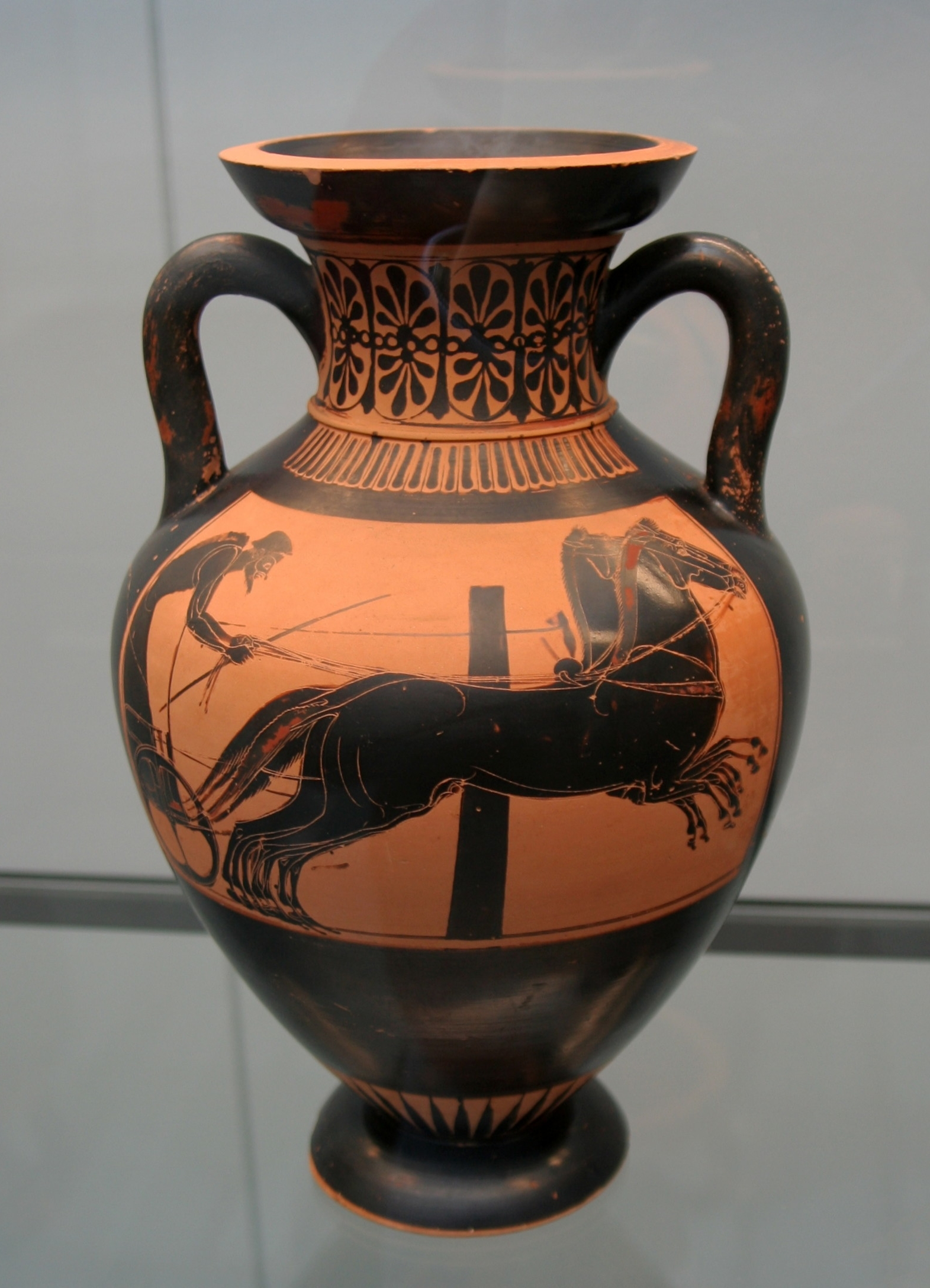 Chariot race with quadriga and terma. Side B of an Attic black-figure pseudo-panathenaic amphora, ca. 500 BC. From Vulci.